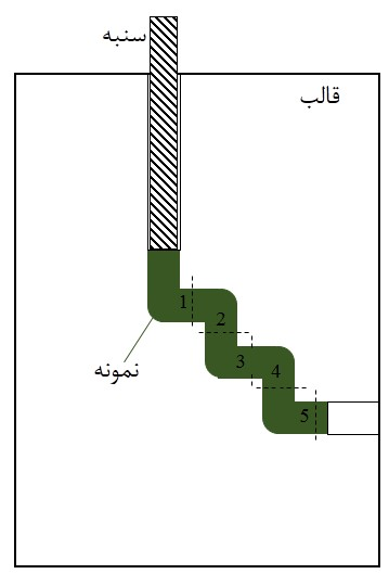 شماتیک فرآیند فشار در کانال مساوی زاویه دار همراه با قالب چندپاسه